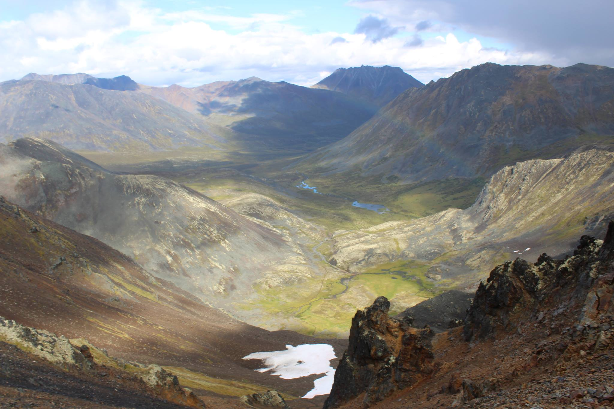 A photo from the top of Glissade Pass